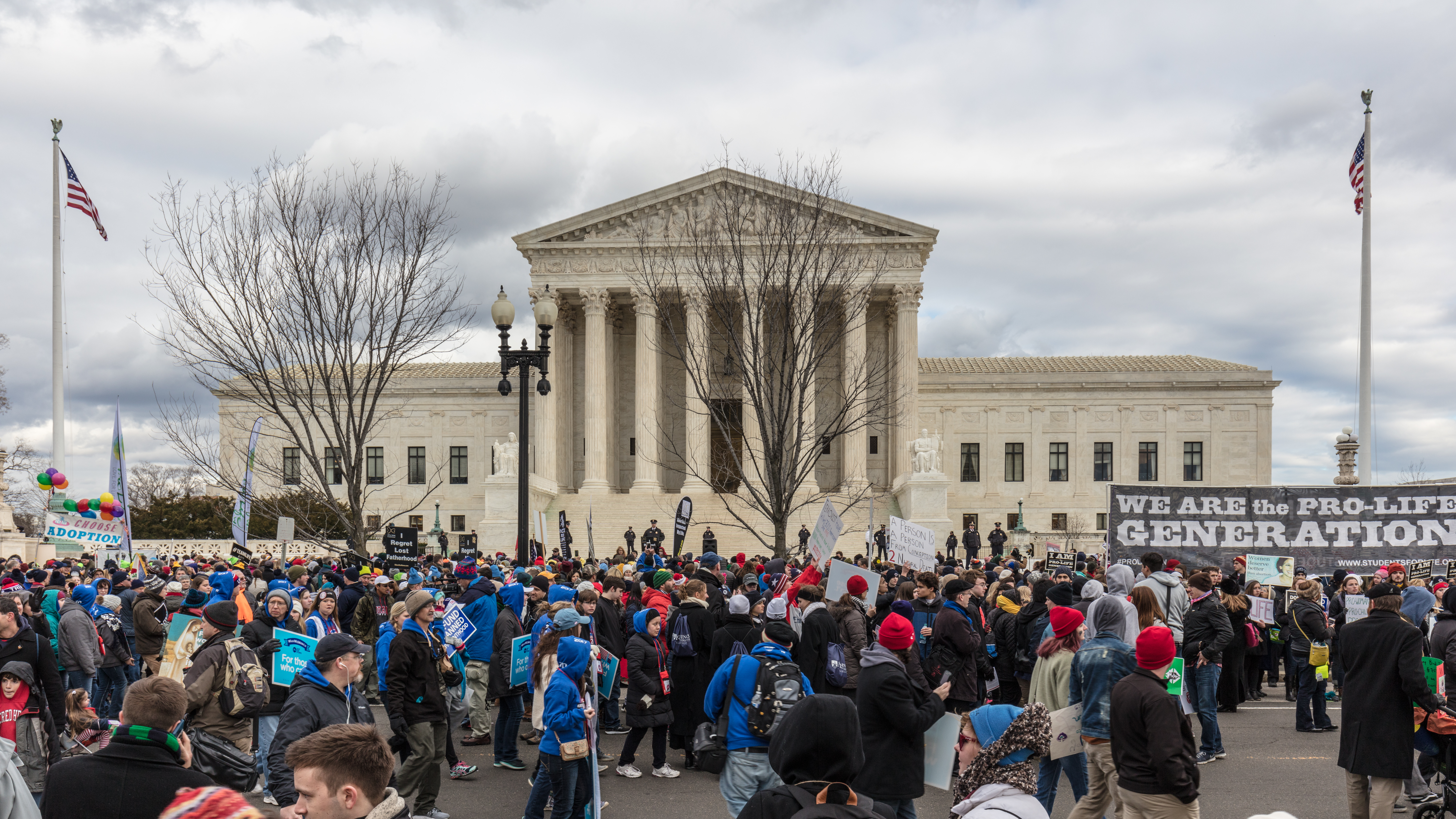 At the 2017 March for Life